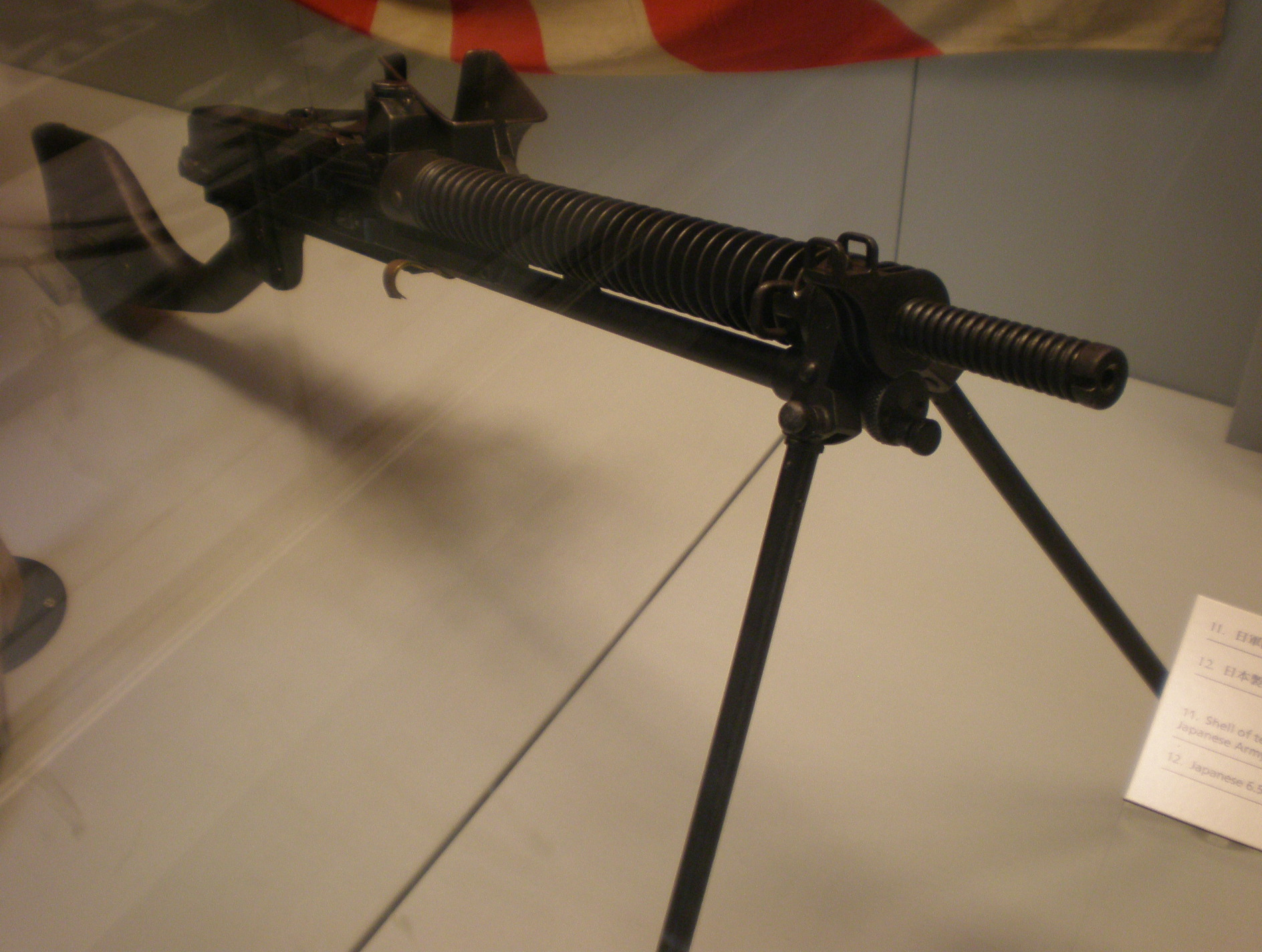 A Type 11 light machine gun on display at the Hong Kong Museum of Coastal Defence.